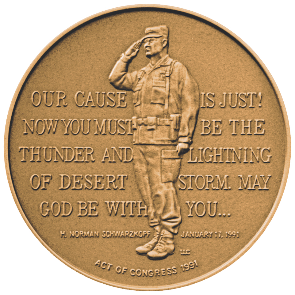 Bronze duplicate of General H. Norman Schwarzkopf Congressional Gold Medal (reverse)